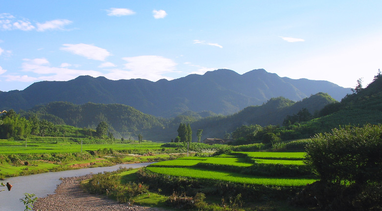 Danlongsi Town,Huoshan County,Anhui